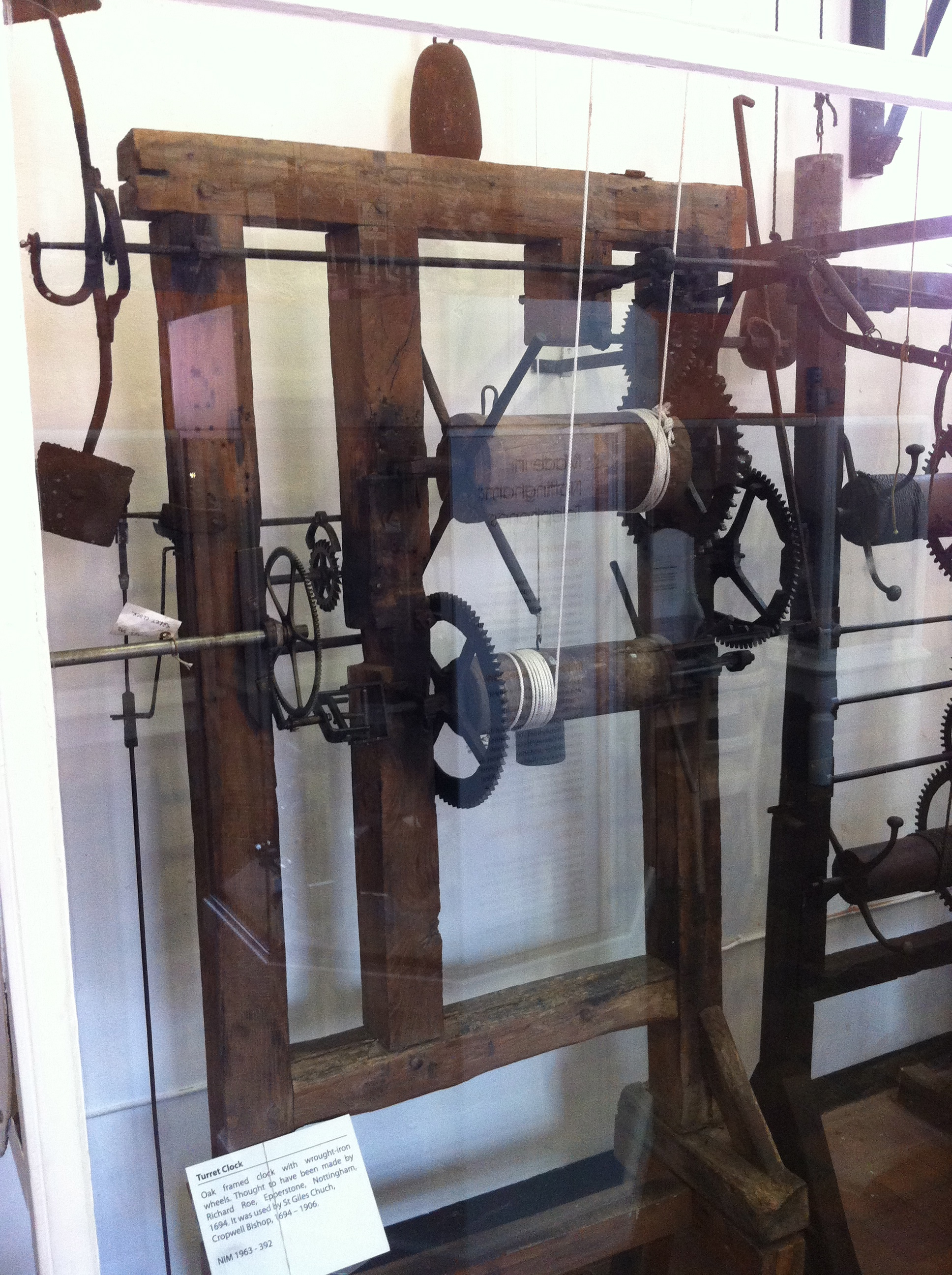 Turret clock made for St Giles' parish church, Cropwell Bishop, Nottinghamshire. Now in Nottingham Industrial Museum.